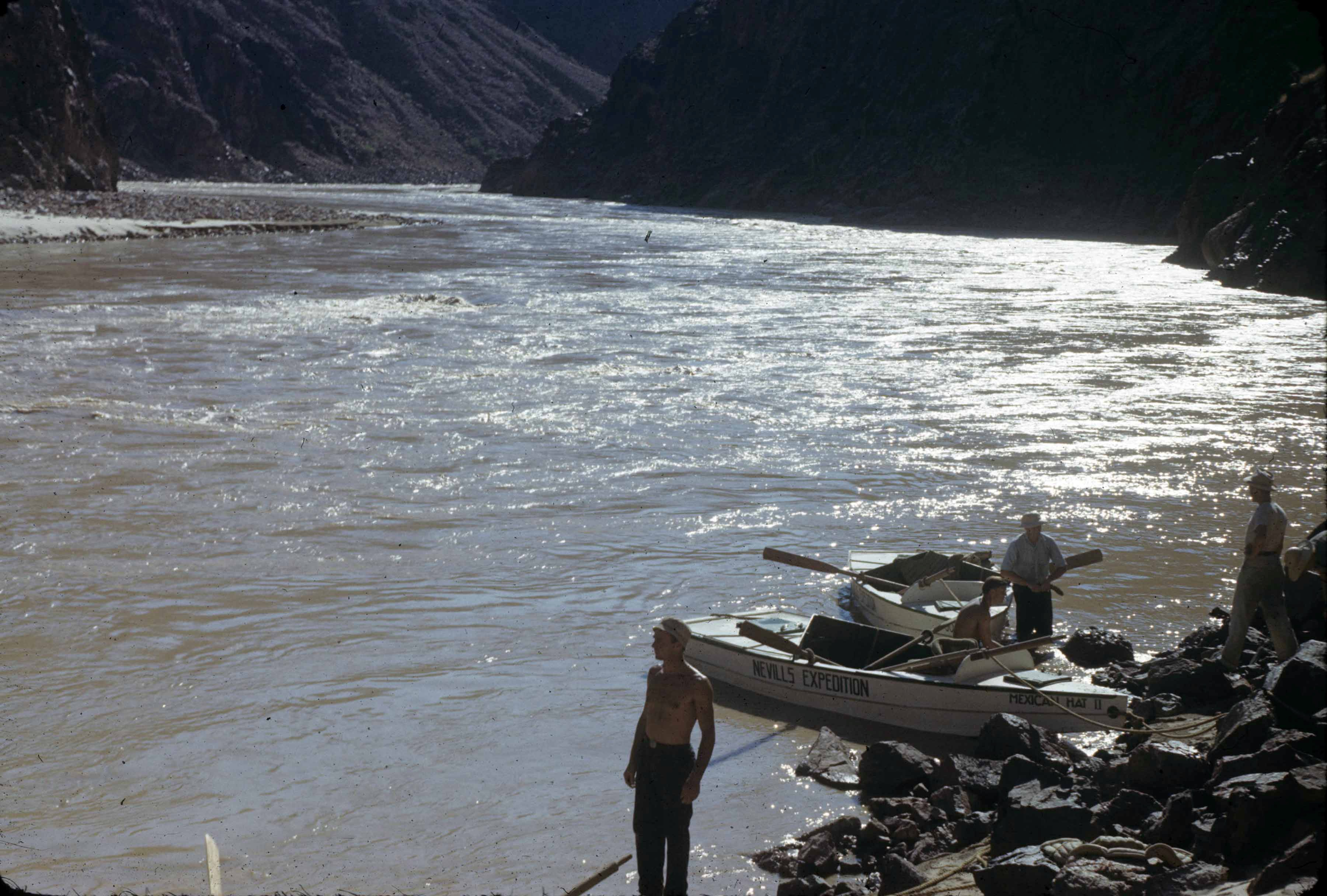 Norman Nevills is standing on the far left. In the boat without a shirt is Preston Walker. The boats are at the mouth of Pipe Creek in the Bottom of the Grand Canyon, July 23 1942